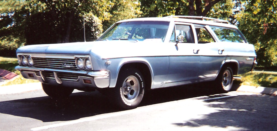 1966 Chevrolet Bel Air Station Wagon in Nashville, Tennessee.